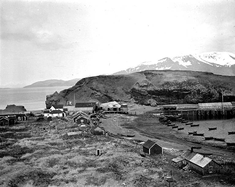 From John Cobb field notebook: Union Fish Co.'s Pirate Cove station from the hill to the south. May 1913 Subjects (LCSH): Union Fish Company; Cod fisheries--Alaska--Pirate Cove